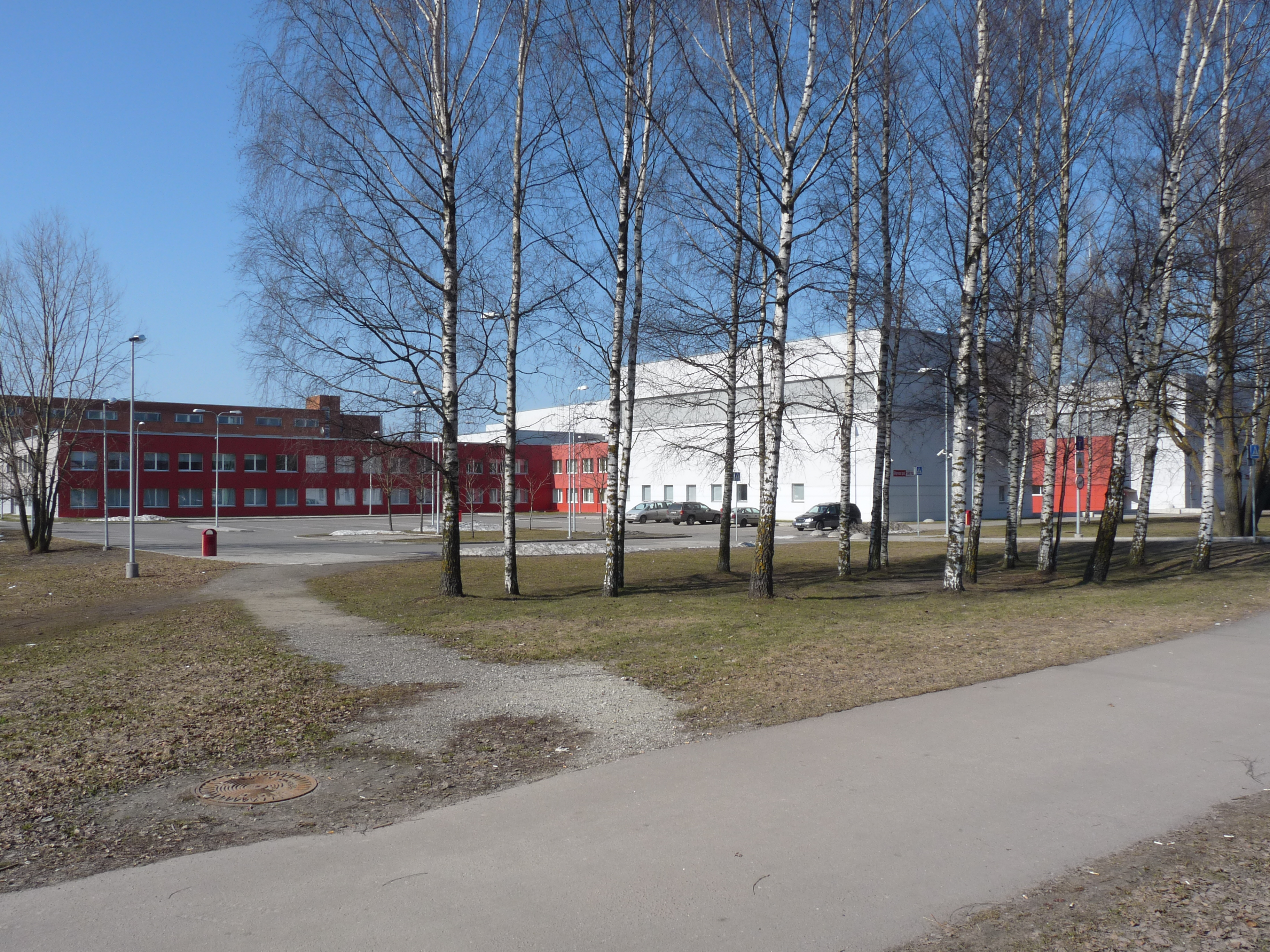 Tallinna Tööstuhariduskeskus (Tallinn vocation educational centre). During USSR times it was named "Vocational school no. 42".